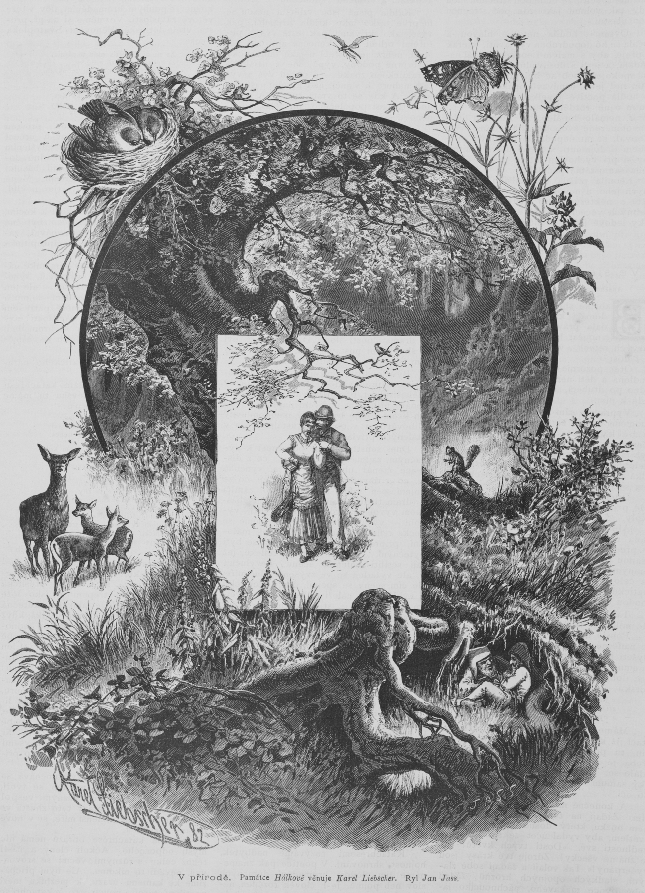 "In the nature" - dedicated to Vítězslav Hálek. (V přírodě - translated as "In the Nature" - was Hálek's famous book of poetry.)